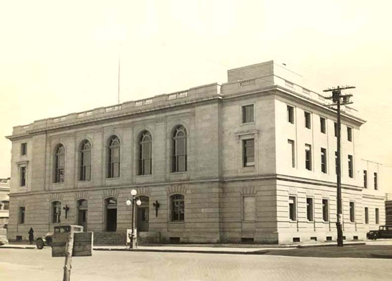 Billings, Montana U.S. Post Office (n.d., ca. 1914) Completed in 1914. Supervising Architects: James Knox Taylor and Oscar Wenderoth Building used by the U.S. District Court for the District of Montana. Still in use as a post office.